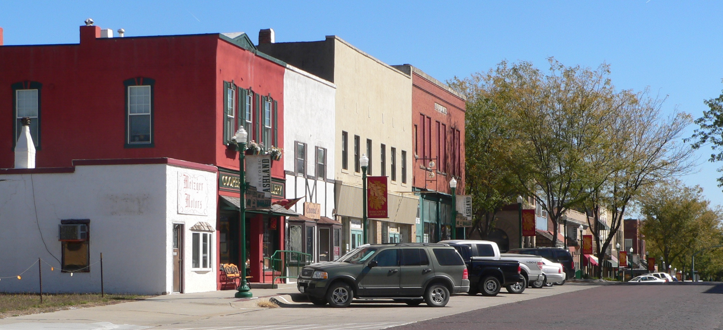 Downtown Ashland, Nebraska: Silver Street, looking east.